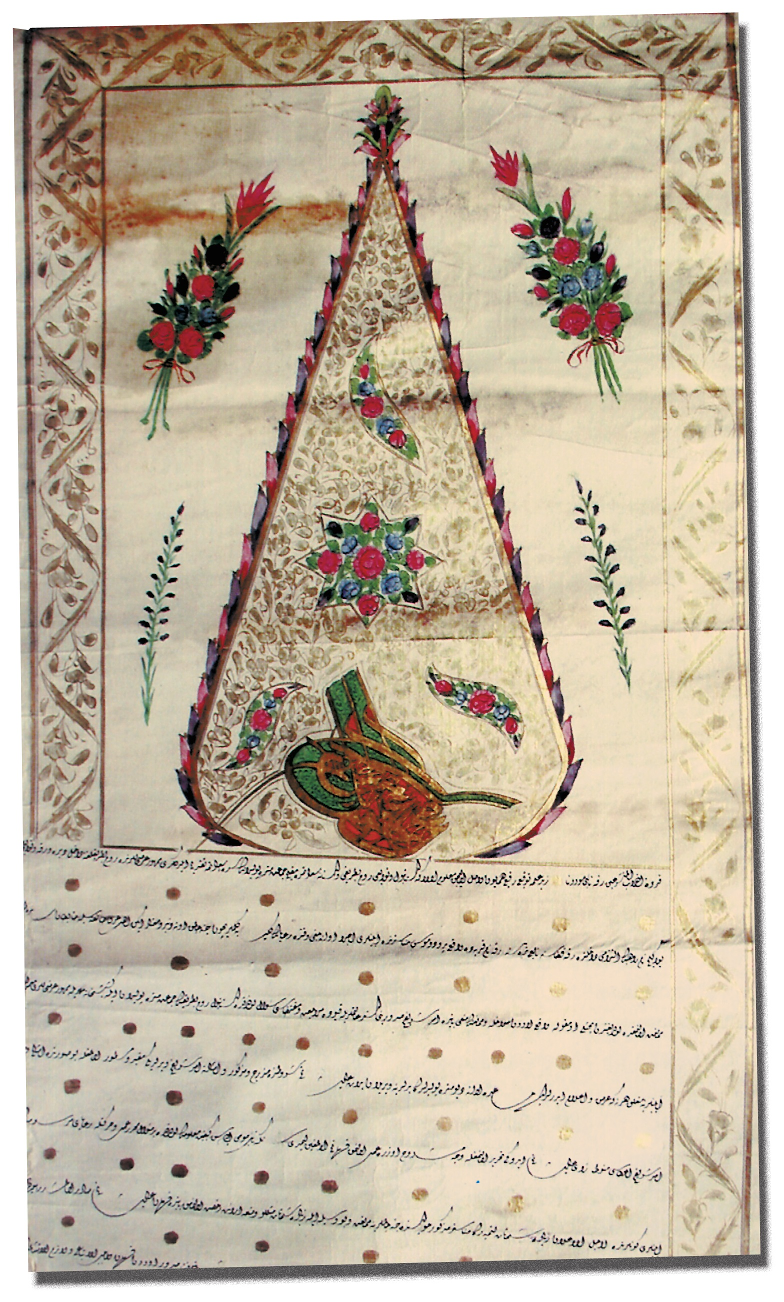 The Ferman to the qadi of the kaaza in Reka, ordering the local authorities not to prevent the chiming of the church-bells, which summoned the Christians for religious ceremonies (1838) This media file is produced by Wikipedian in Residence in Category:Wikipedian in Residence at DARM in 2016.